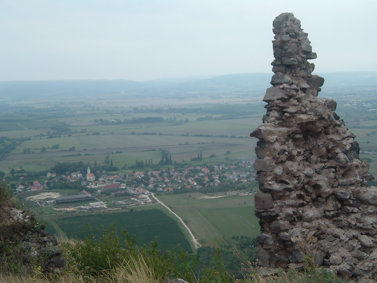 Ruins of Castle Csobánc